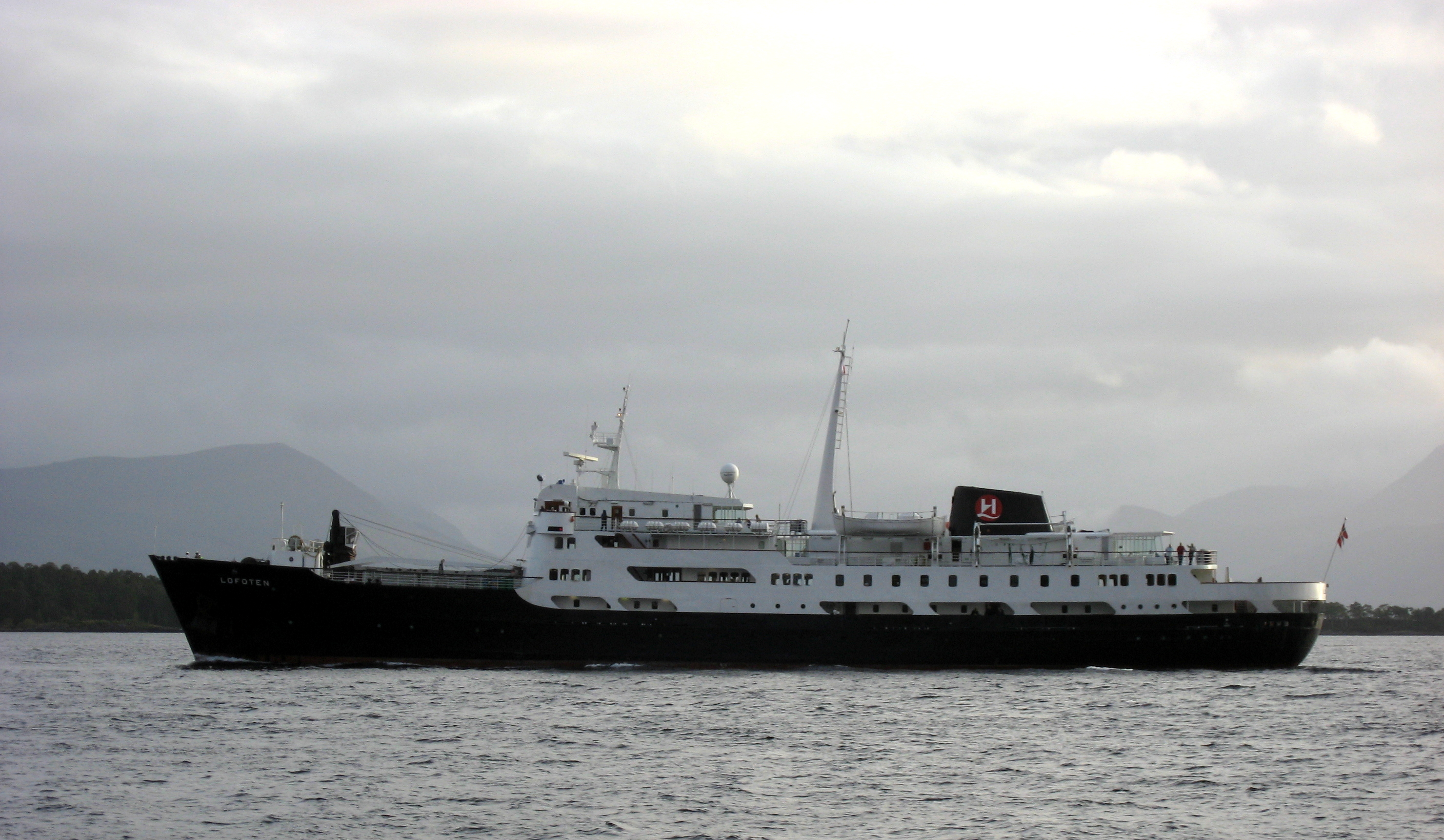 Norwegian coastal express (Hurtigruten) ship MS Lofoten in Moldefjord